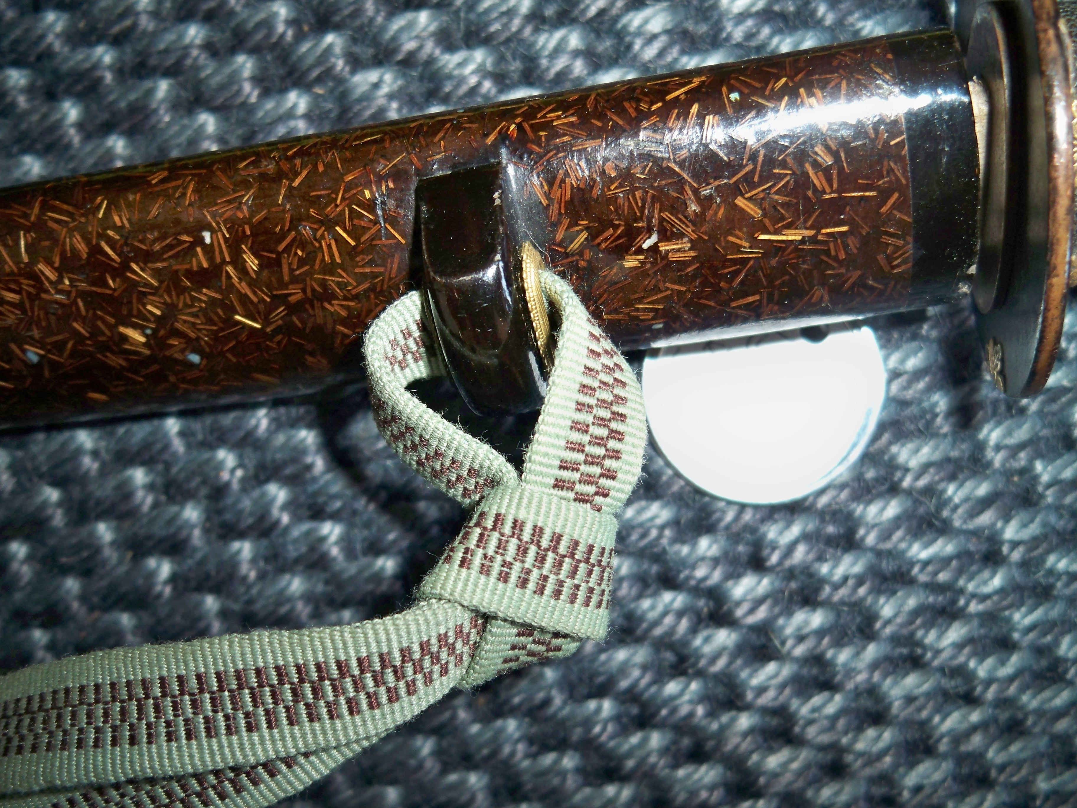 Close up picture of the knob type fitting kurikata used to attach the cord sageo to the scabbard saya of the koshirae on a Japanese sword.